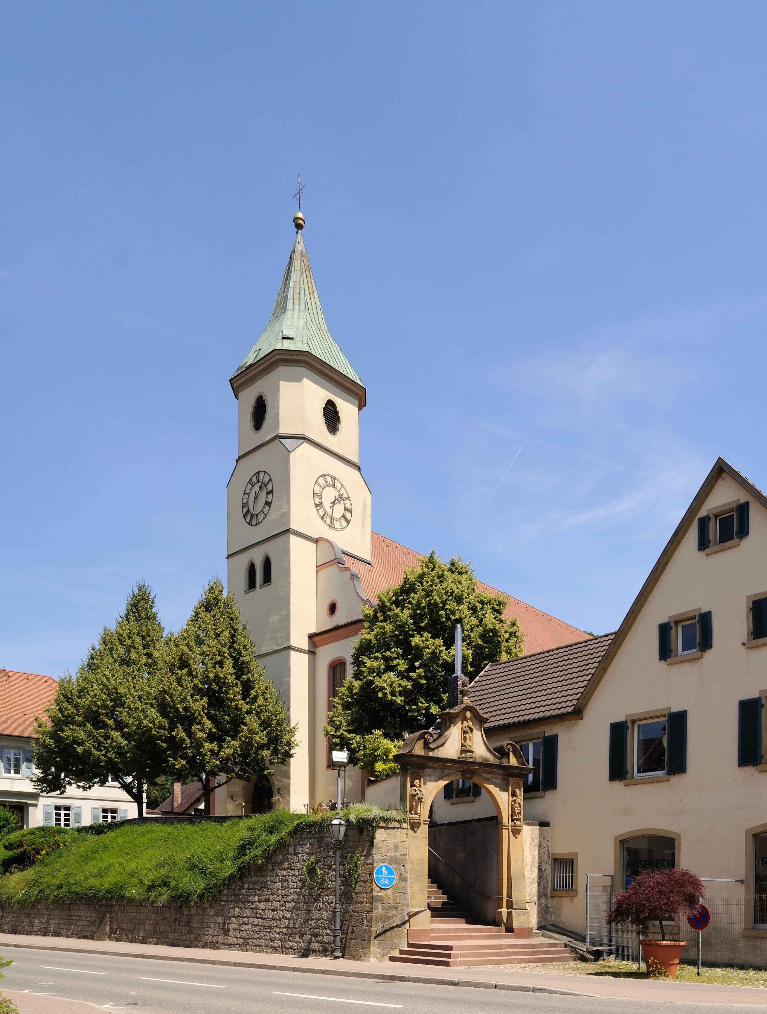 Schliengen: Saint Leodegar Church